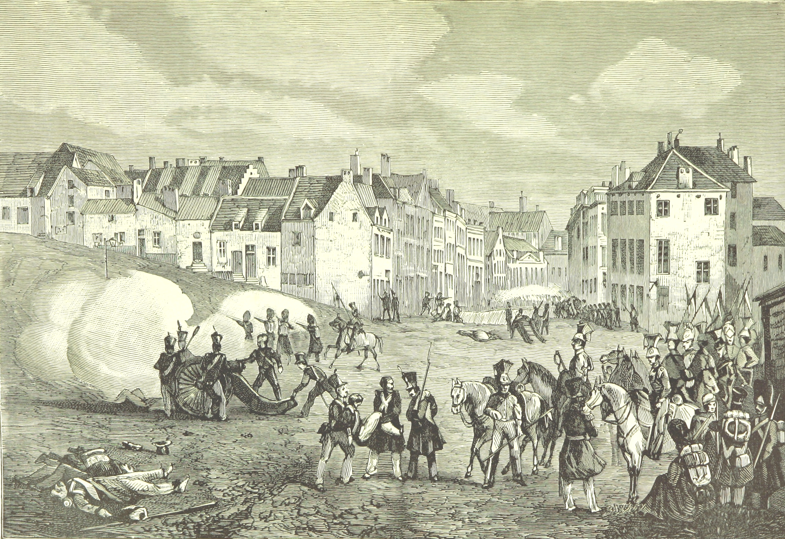 Dutch troops entering Brussels through the Porte de Namur on Thursday 23 September 1830